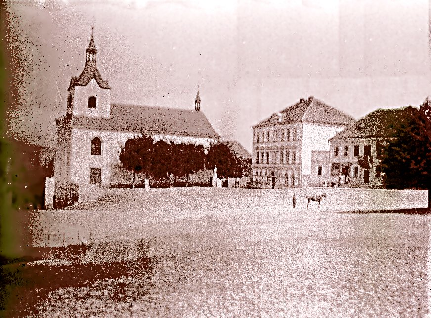 St. Nicholas Church and the school on the square about 1900